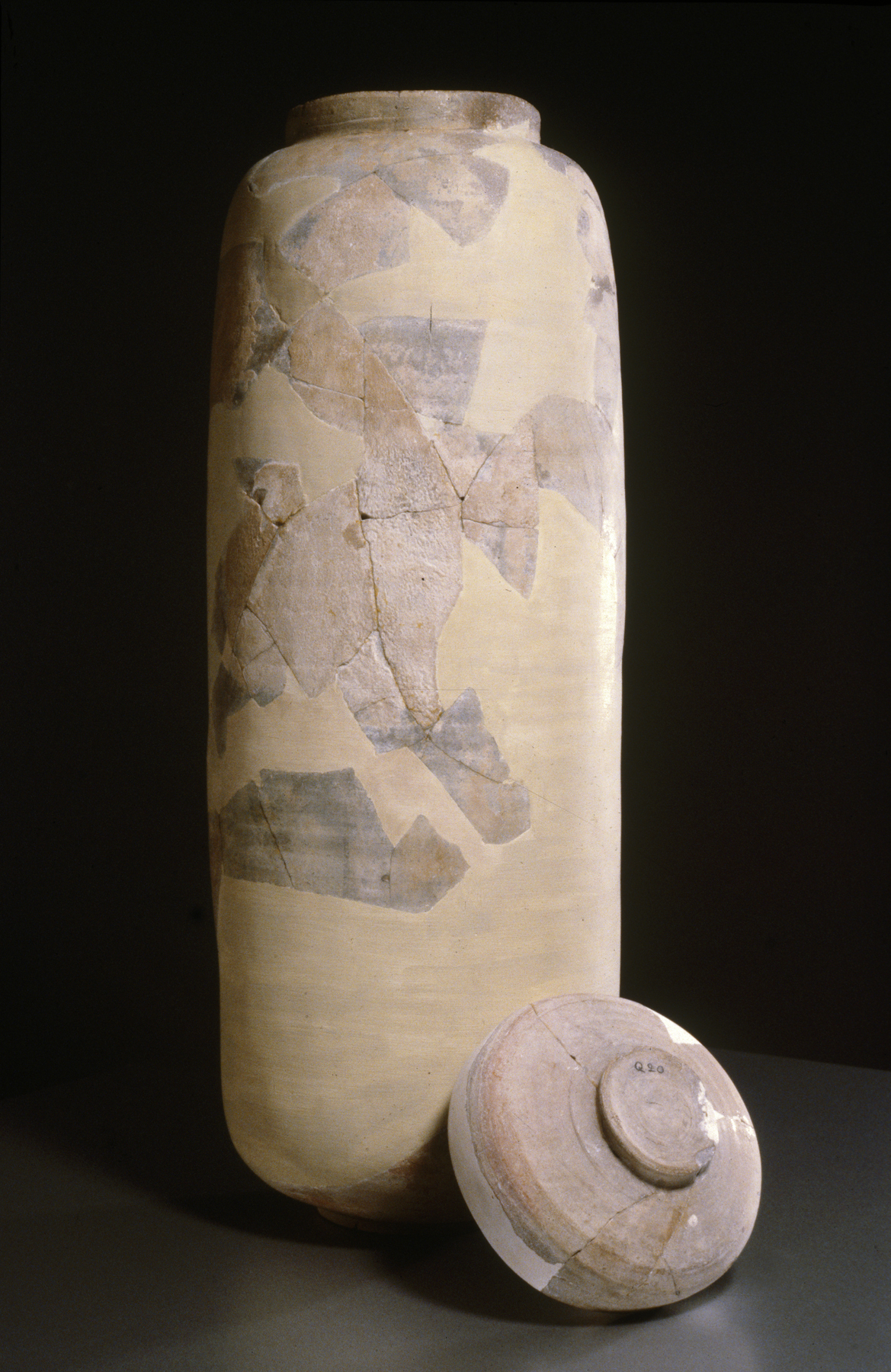 Between 1948 and 1956, about 80 intact manuscript rolls and more than 20,000 fragments were discovered in eleven caves at Qumran, near the Dead Sea. Known as the Dead Sea Scrolls, they preserve parts of every book of the Hebrew Bible (Old Testament), except for Esther, and represent the earliest existing Hebrew versions. Jars such as this one, also found in a cave near Qumran, were used frequently by the ancient Jews to store manuscript rolls of parchment, papyrus, and copper.